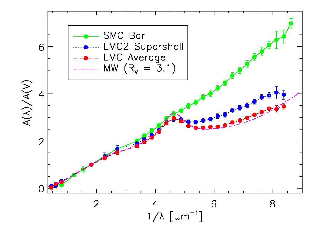 Average UV-NIR extinction curves for MW, LMC, and SMC (or regions therein). From data published in Gordon, K. D. et al. (2003, ApJ, 594, 279).